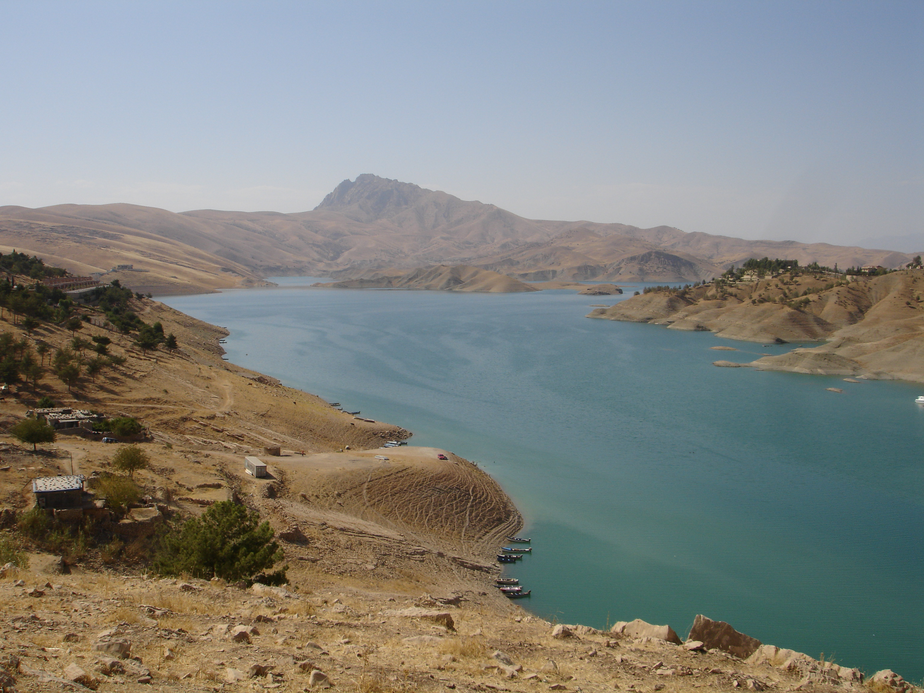 The lake of Dukan in Sulaymaniyah Governate This Picture was taken in Kurdistan.